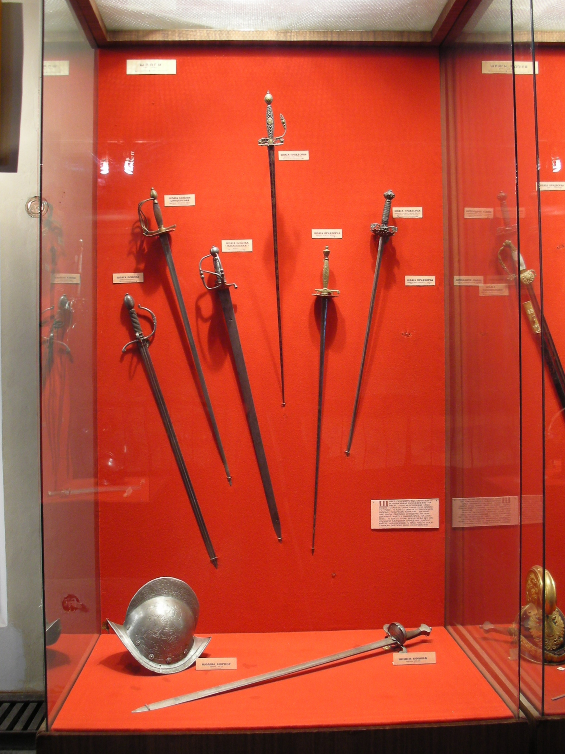 "Arsenal" Museum in Lviv (Ukraine).